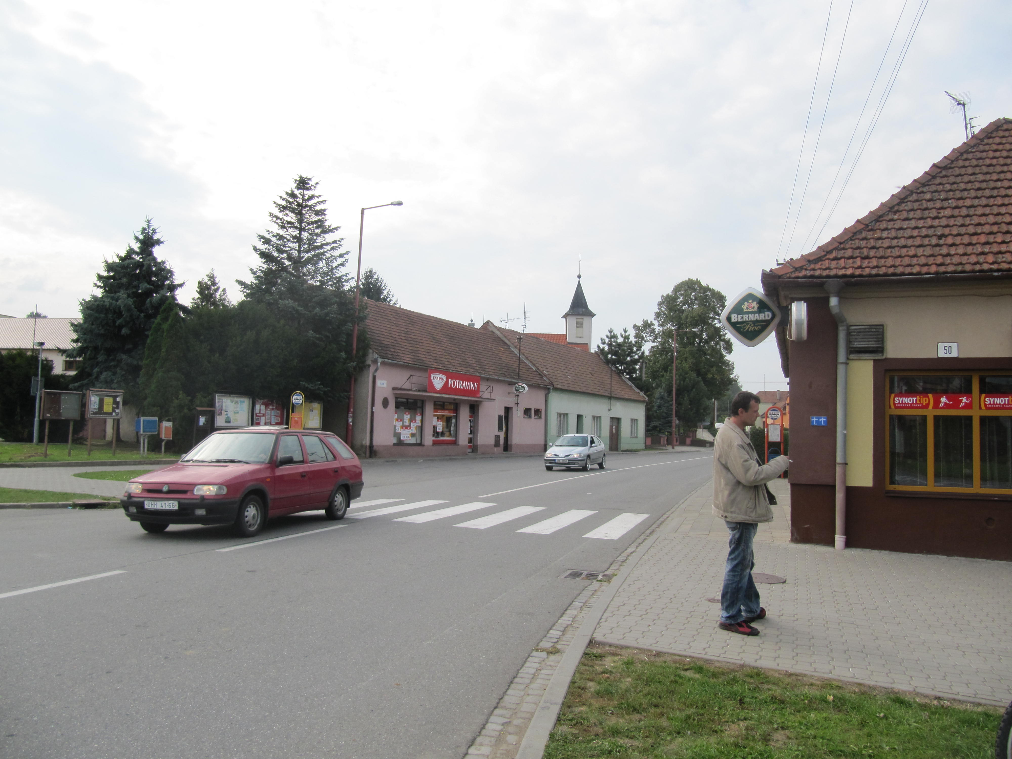 Uherské Hradiště, part Míkovice, Czech Republic.Center.